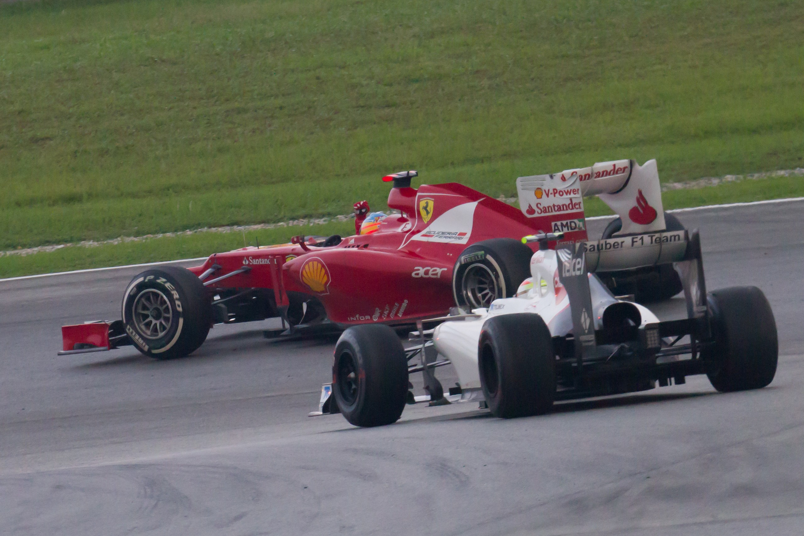 Formula One 2012 Rd.2 Malaysian GP: Fernando Alonso (Ferrari) and Sergio Pérez (Sauber) during the victory lap.